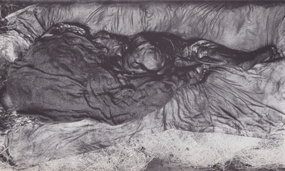 Bog body from Denmark, "Borremose Woman"